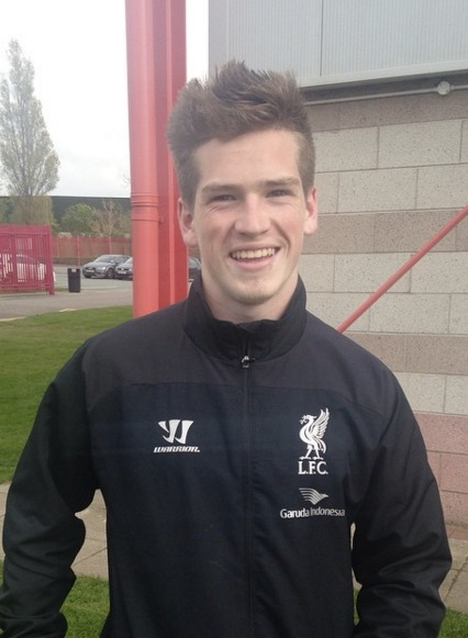 Ryan Kent at Kirkby Academy, Liverpool Football Club